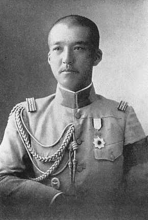 Motoyoshi Mibu